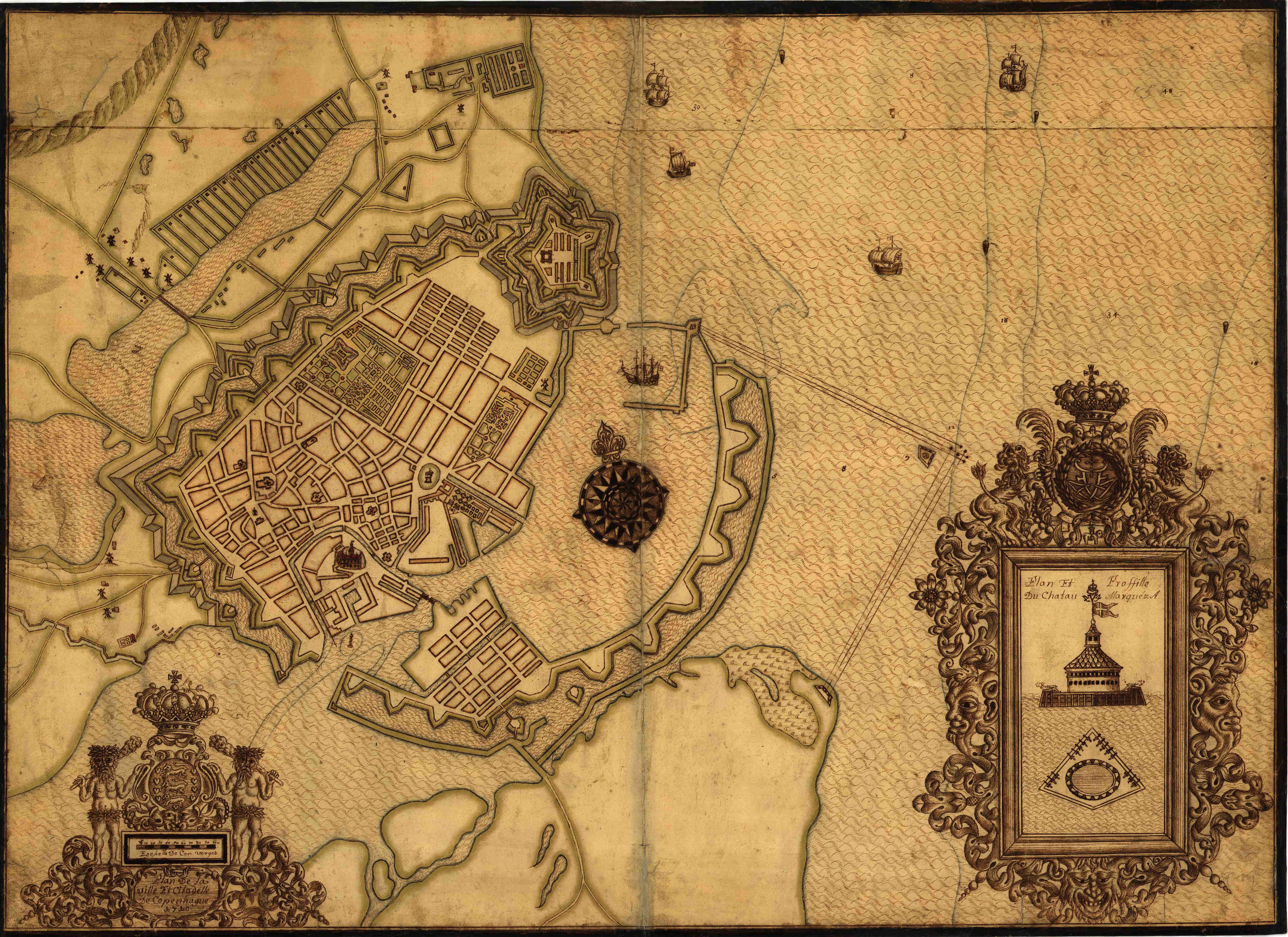 Copenhagen drawn 1710 by Franck.